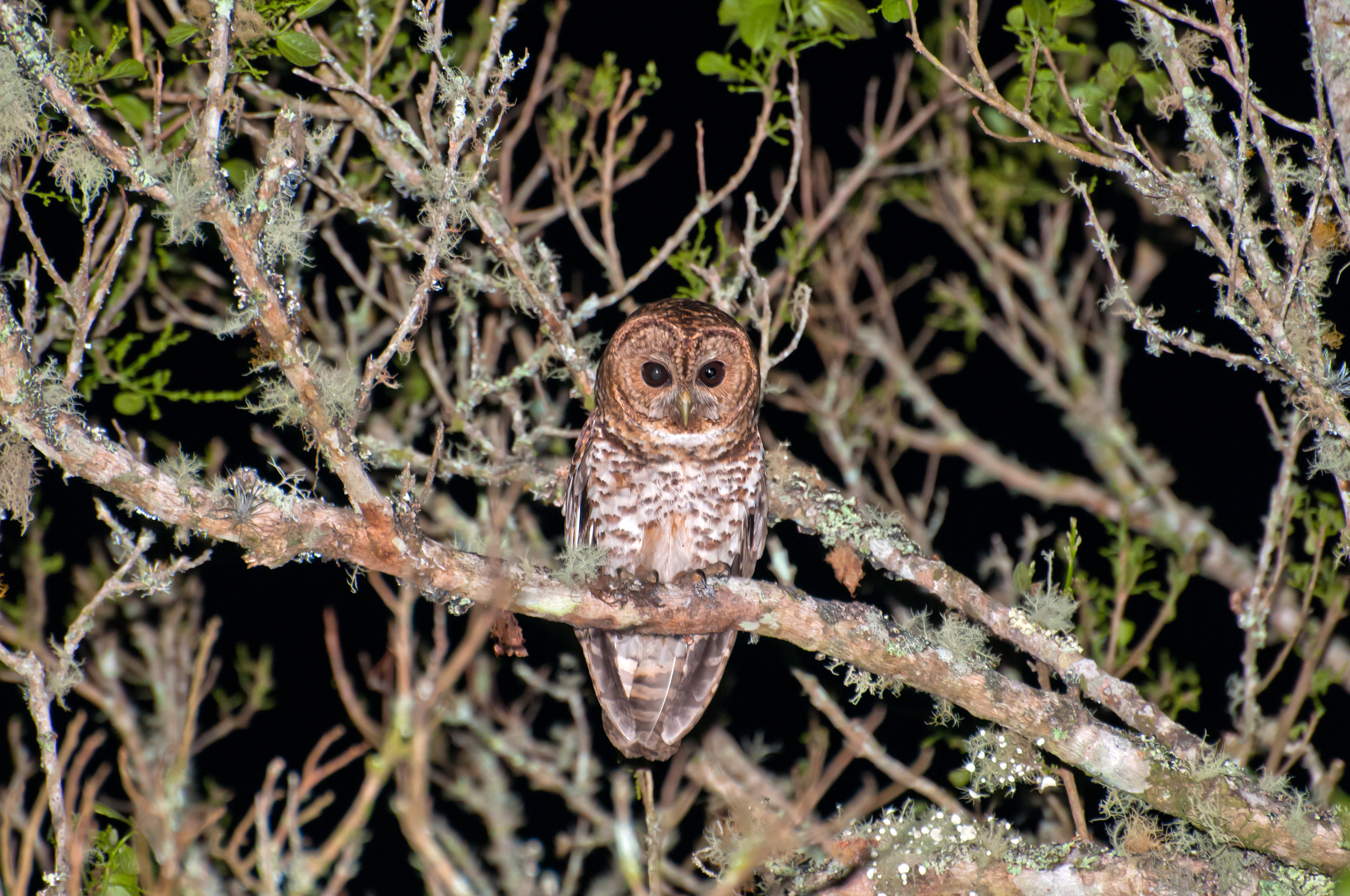 A Rusty-barred Owl in Reserva Guainumbi, São Luis do Paraitinga, São Paulo, Brazil.